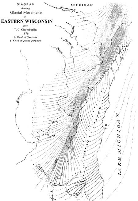 Created by T. C. Chamberlain in 1878.